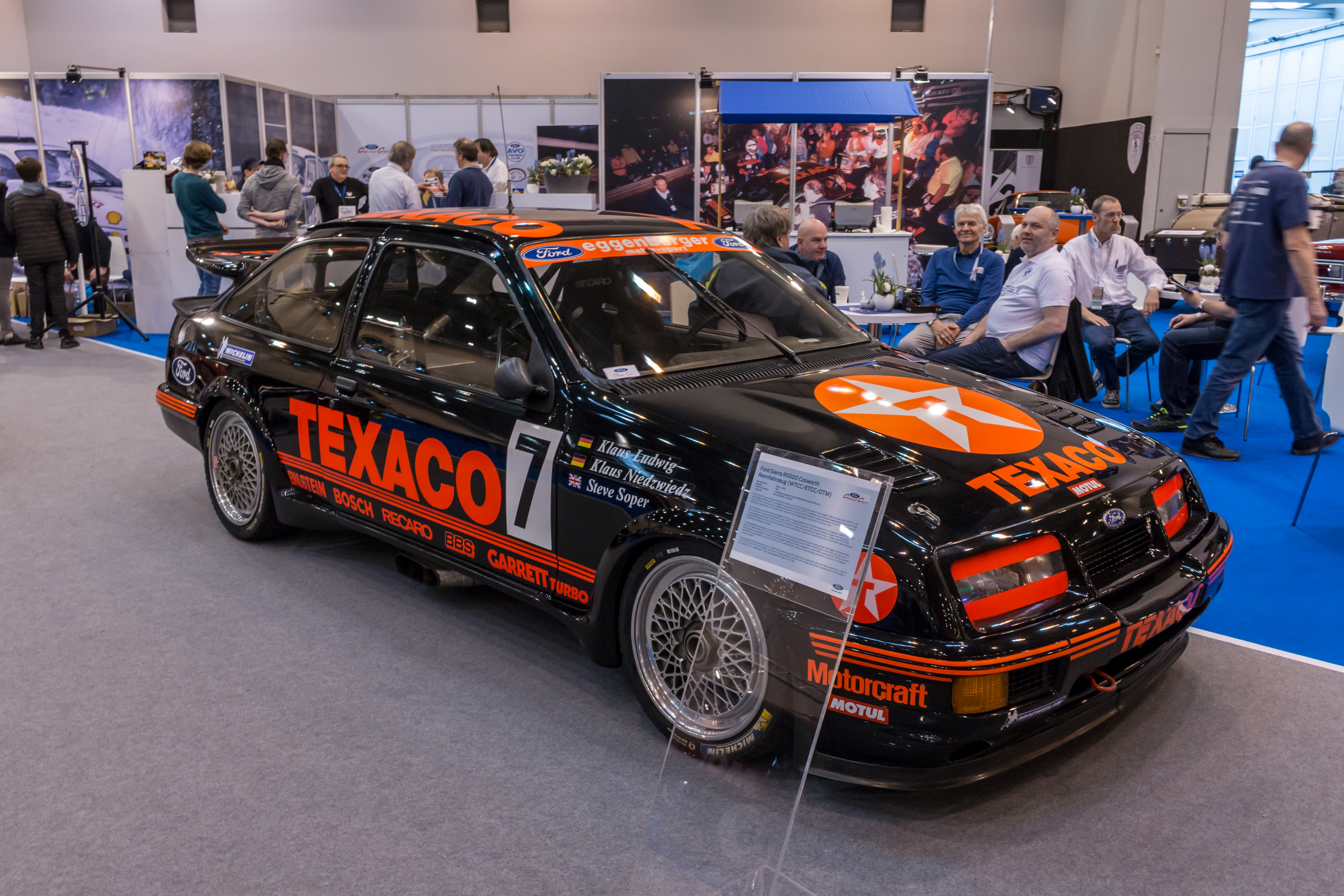 Ford, Techno Classica 2018, Essen